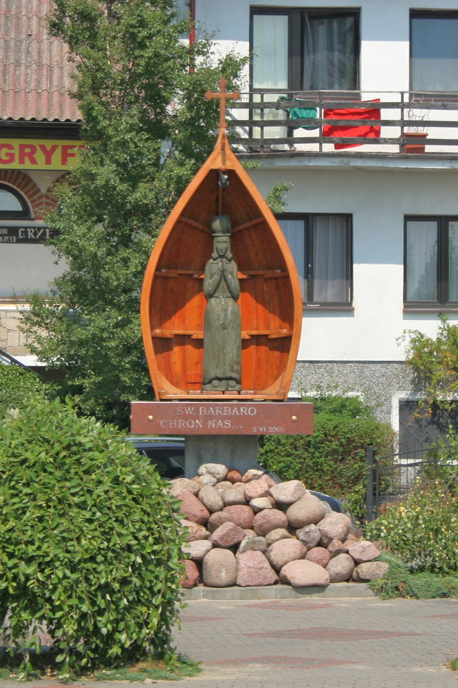 Statue of Saint Barbara in Kuźnica-Syberia.